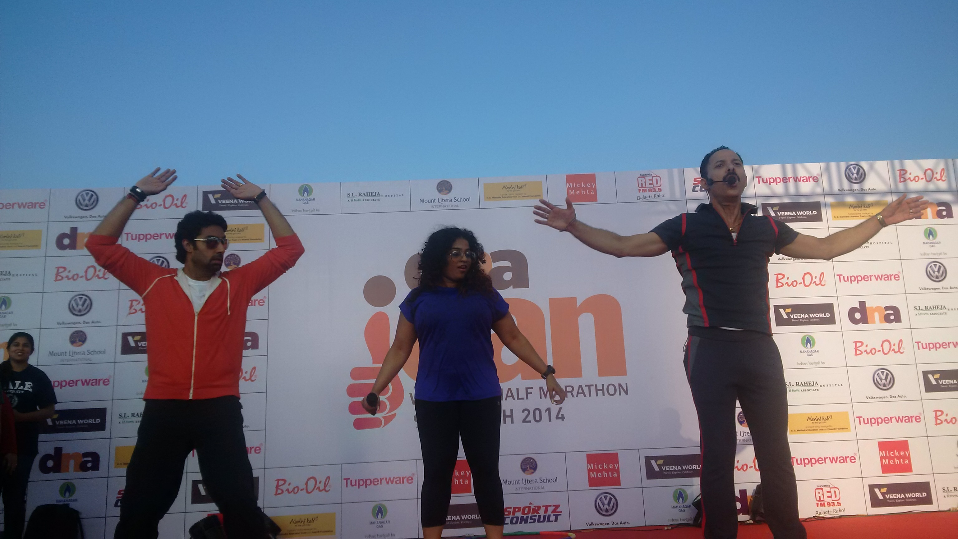 Mickey Mehta making Abhishek Bachchan workout